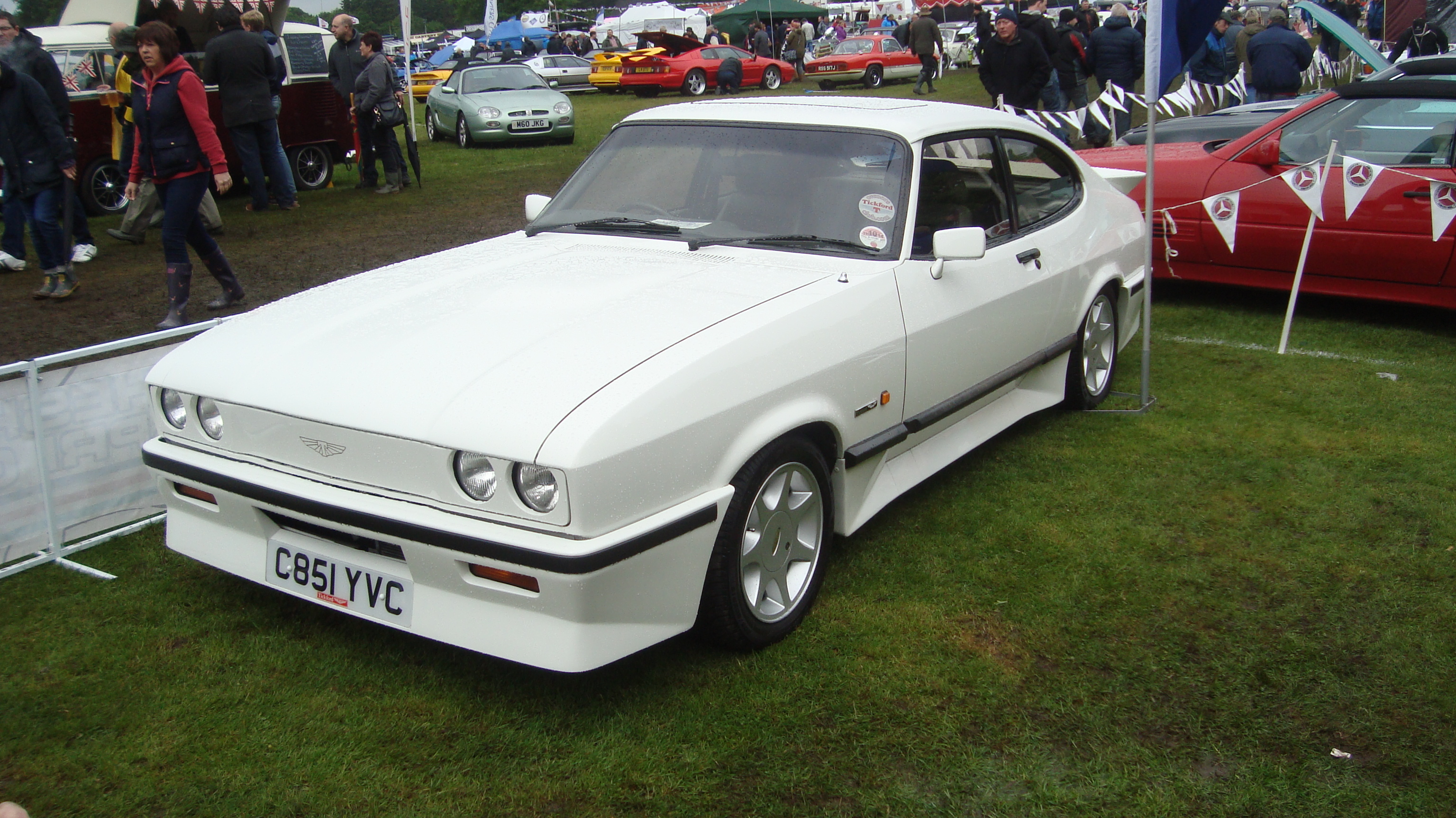 1986 Ford Tickford Capri 2.8